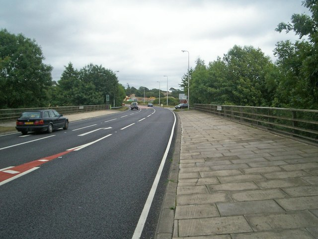 Canaston Bridge. A40(T) crossing the Eastern Cleddau, with the turning for the A4075 beyond.